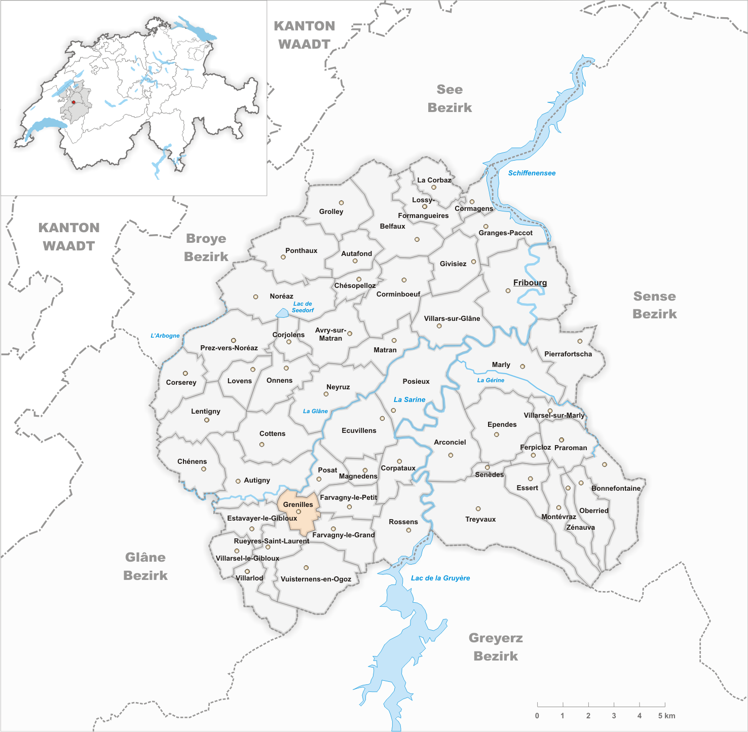 Municipality Grenilles Artist: Tschubby